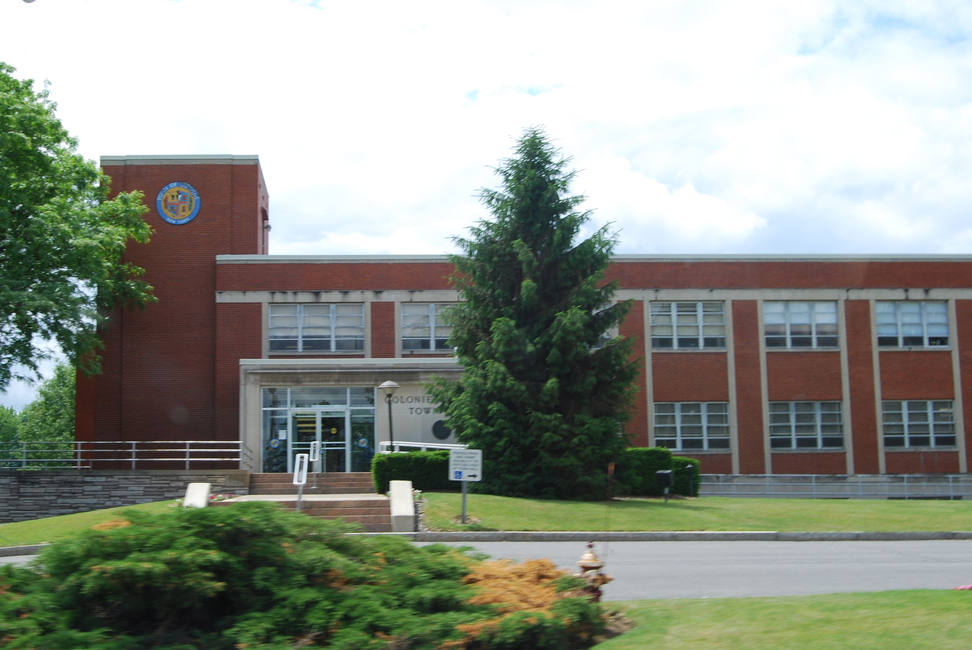 Town hall of Colonie, New York, United States